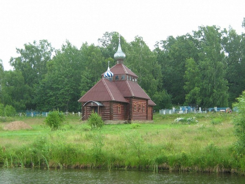 Saint George Orthodox church built in 2004—2005 in the vollage of Damaškavičy, Dokšycy District